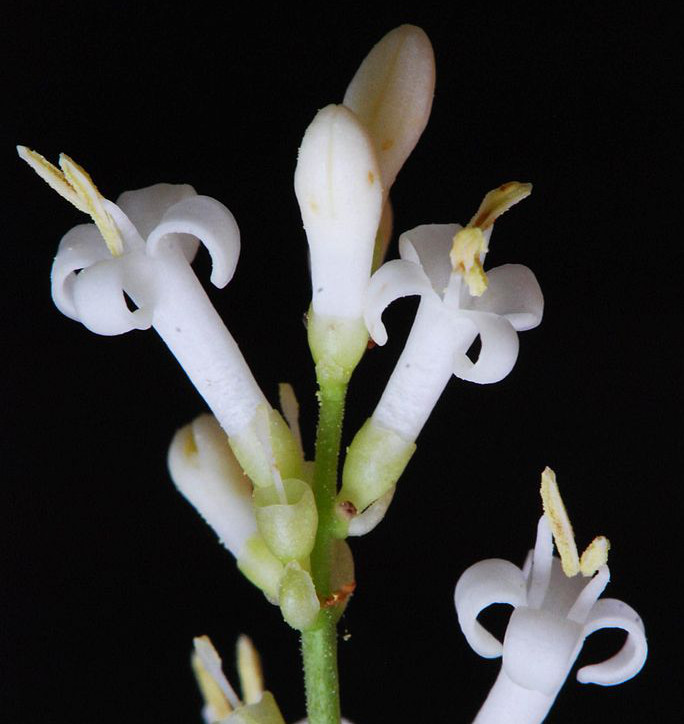 Flowers of Ligustrum vulgare